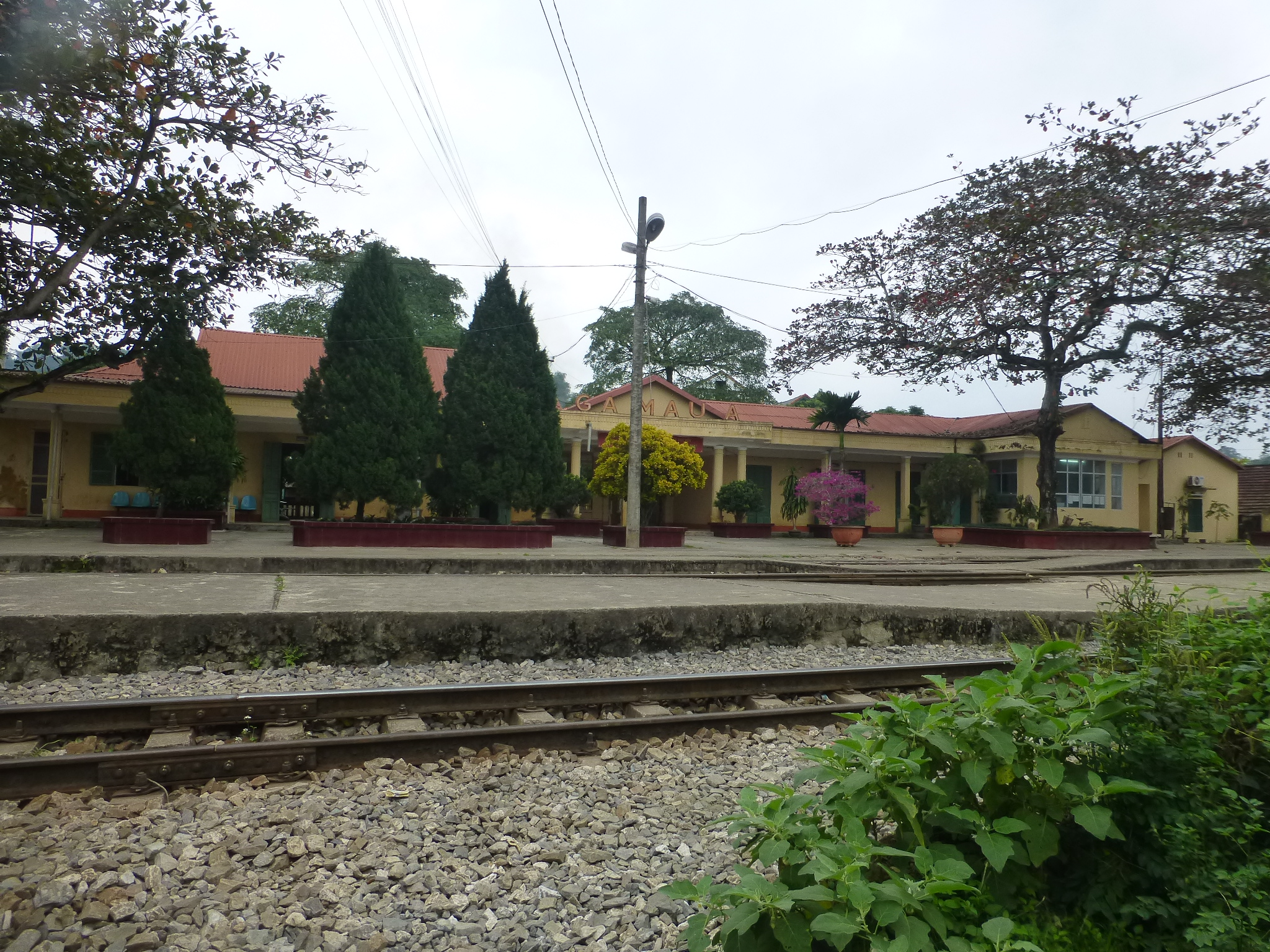 Mau A Railway Station, in northwestern Vietnam.